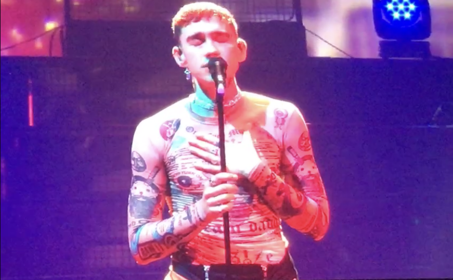 Olly During Lucky Escape Perfomance London 02 Arena 5.12.18